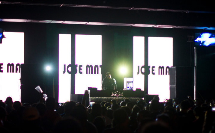 Jose Mata performing at Parque De La Industria in Guatemala City